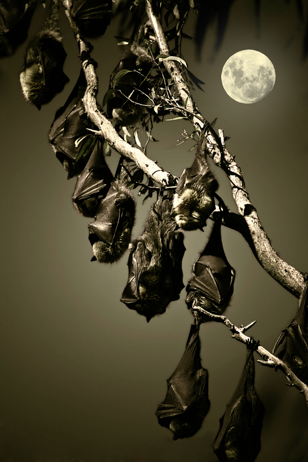 Some Flying Foxes hanging out at Parramatta Park